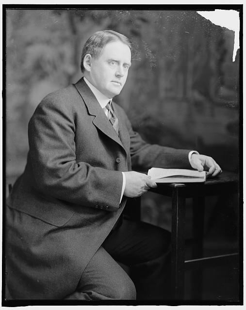 Charles H. Burke circa 1920 Digital ID: (digital file from original negative) hec 14886 Reproduction Number: LC-DIG-hec-14886 (digital file from original negative) Repository: Library of Congress Prints and Photographs Division Washington, D.C. 20540 USA